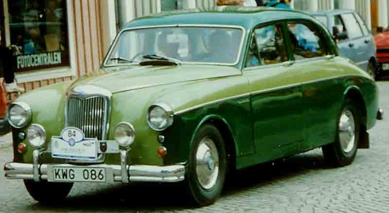 Riley Two Point Six Saloon 1959